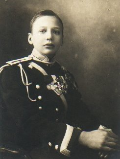 Prince Igor Konstantinovich of Russia (1894-1918), one of the Russian princes that was murdered by bolsheviks in Alapayevsk, Urals, Russia